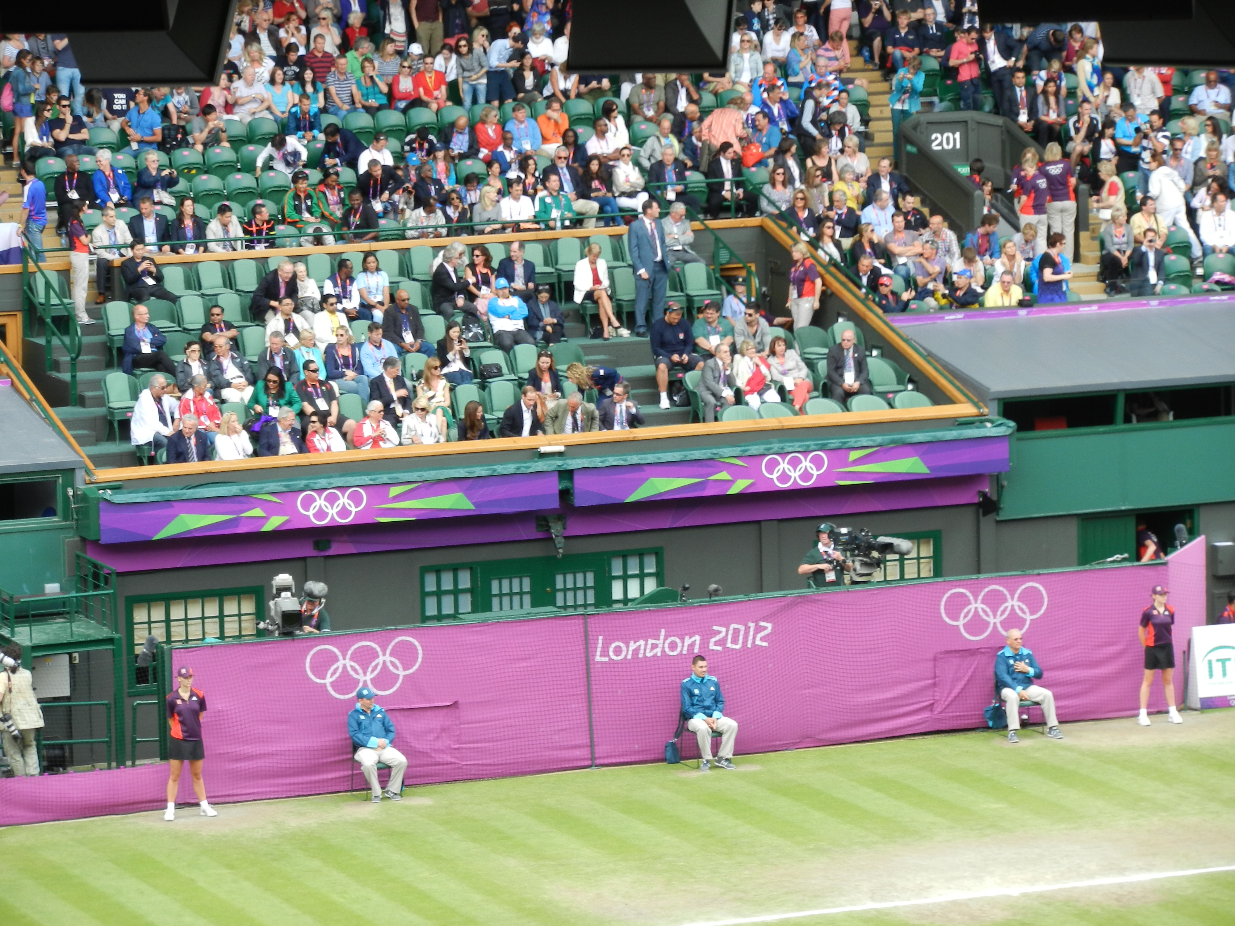 The Royal Box @ Wimbledon Centre Court during the London 2012 Summer Olympics. Note the Duchess and Duke of Cambridge in the first row of the Royal Box